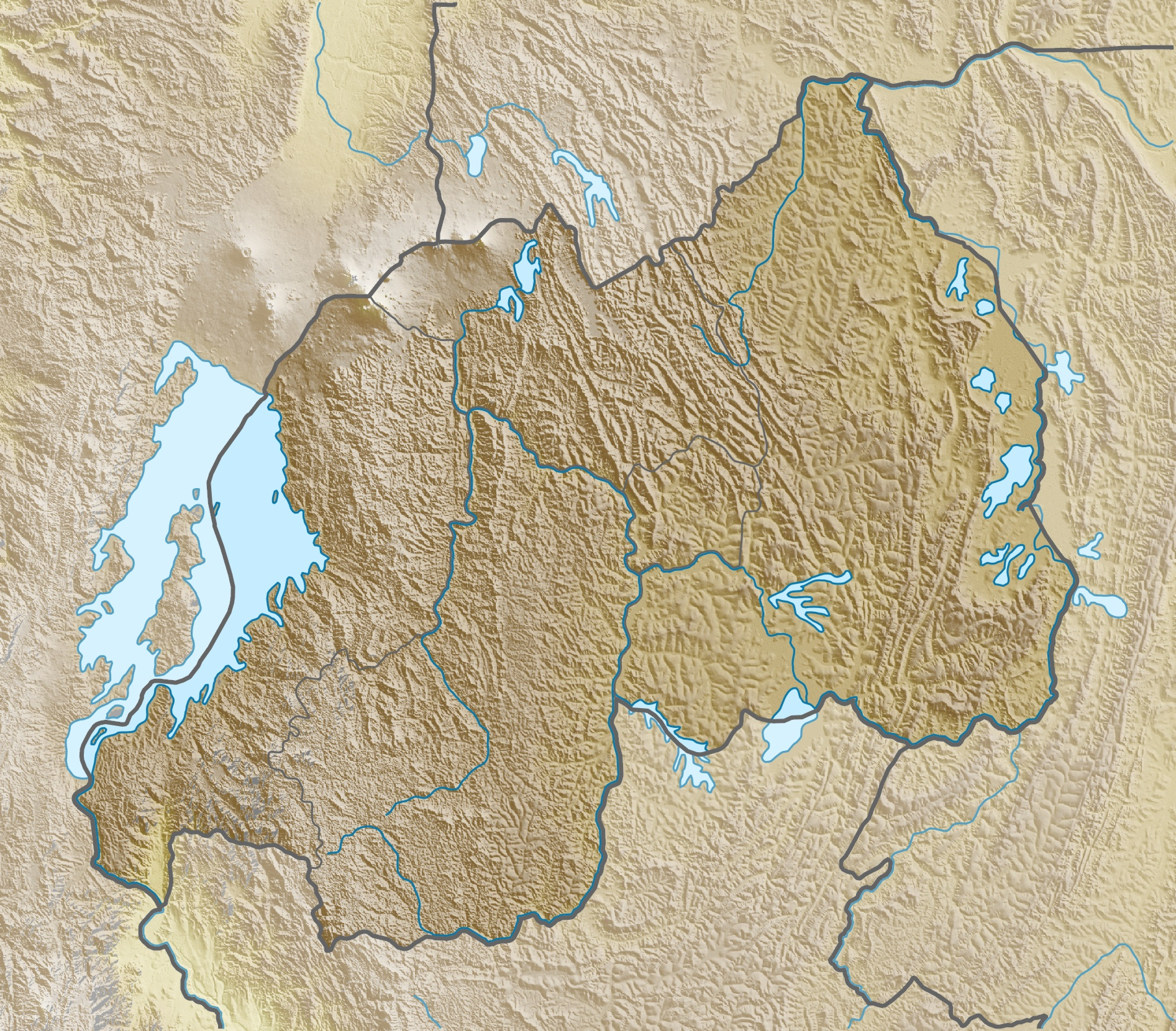 Physical location map of Rwanda Equirectangular projection. Geographic limits of the map: N: 0.9° S S: 3.0° S W: 28.7° E E: 31.1° E